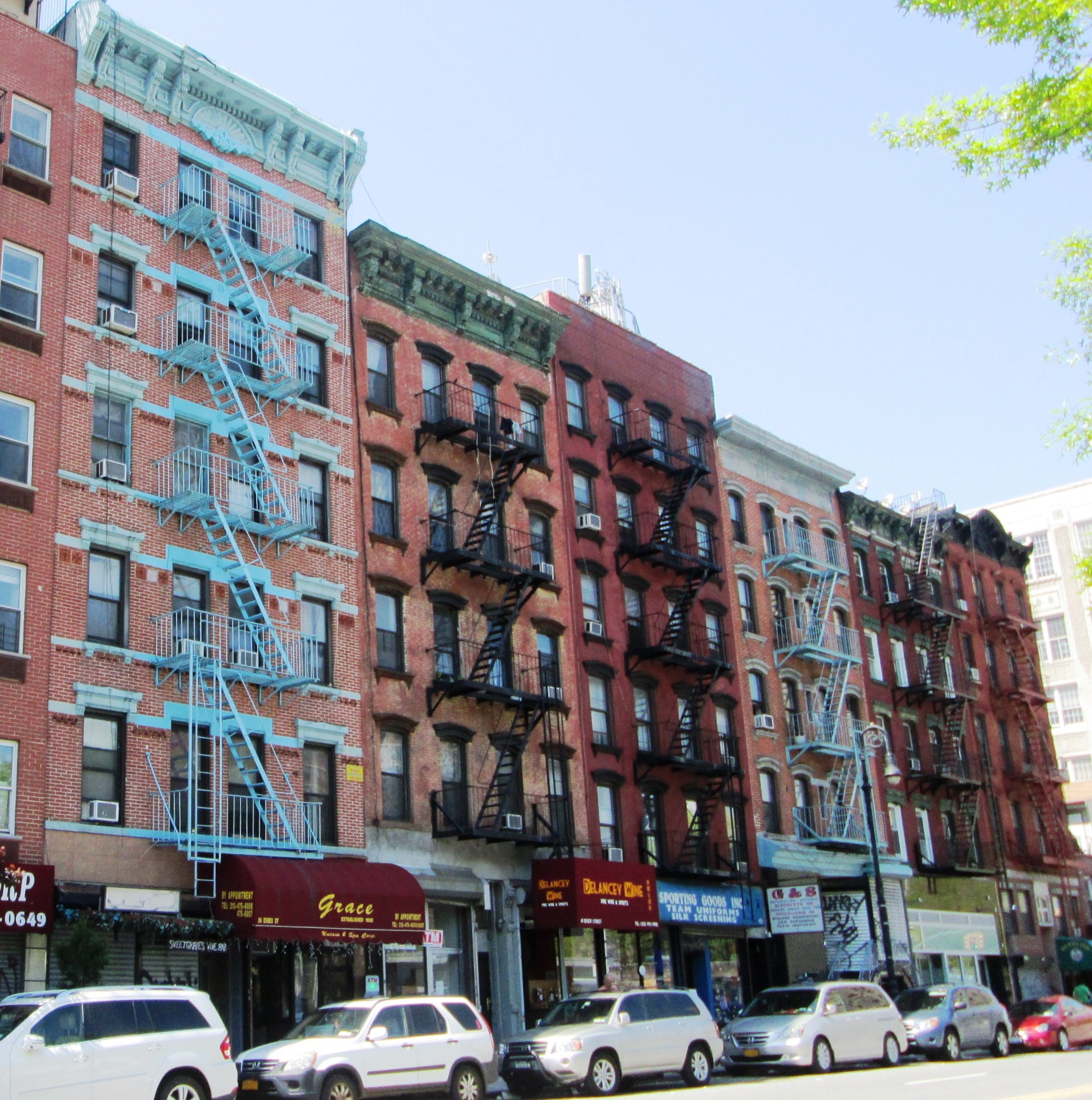 39 (left) - 39 (right) Essex Street between Hester and Grand Streets in the Lower East Side neighborhod of Manhattan, New York City were built c.1900 - 1910. (Source: NYC GIS Map)